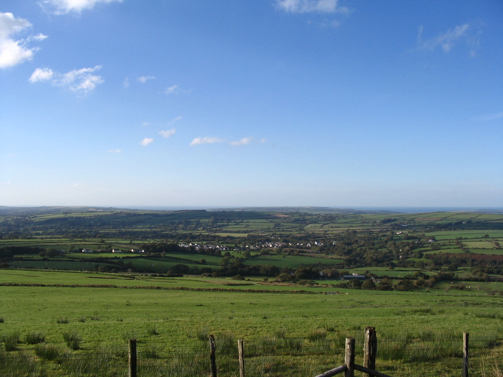 This photograph illustrates the setting of Blaenffos, Pembrokeshire, in the surrounding countryside, viewed from an elevated position SE of the village.